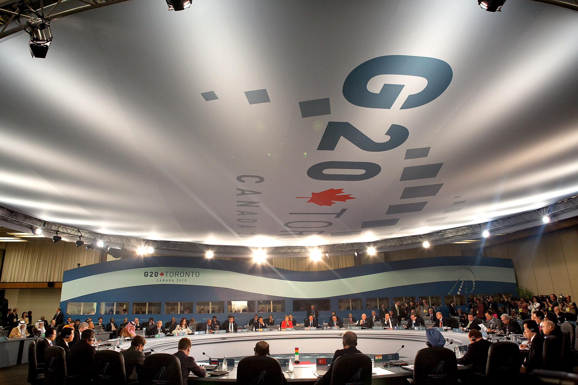 Leaders at the 2010 G-20 Toronto summit